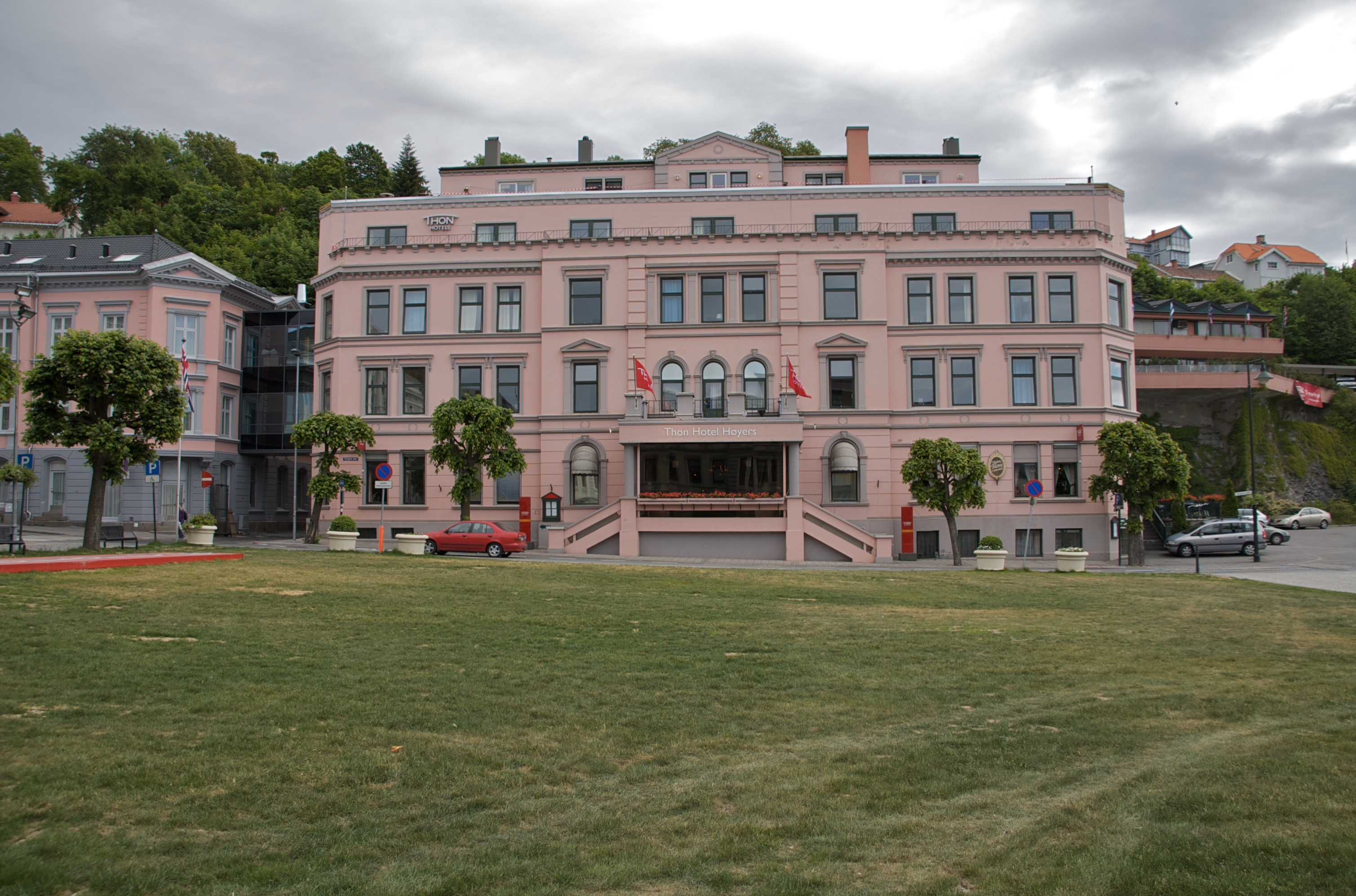 Thon Hotel Høyers in Skien, Norway.